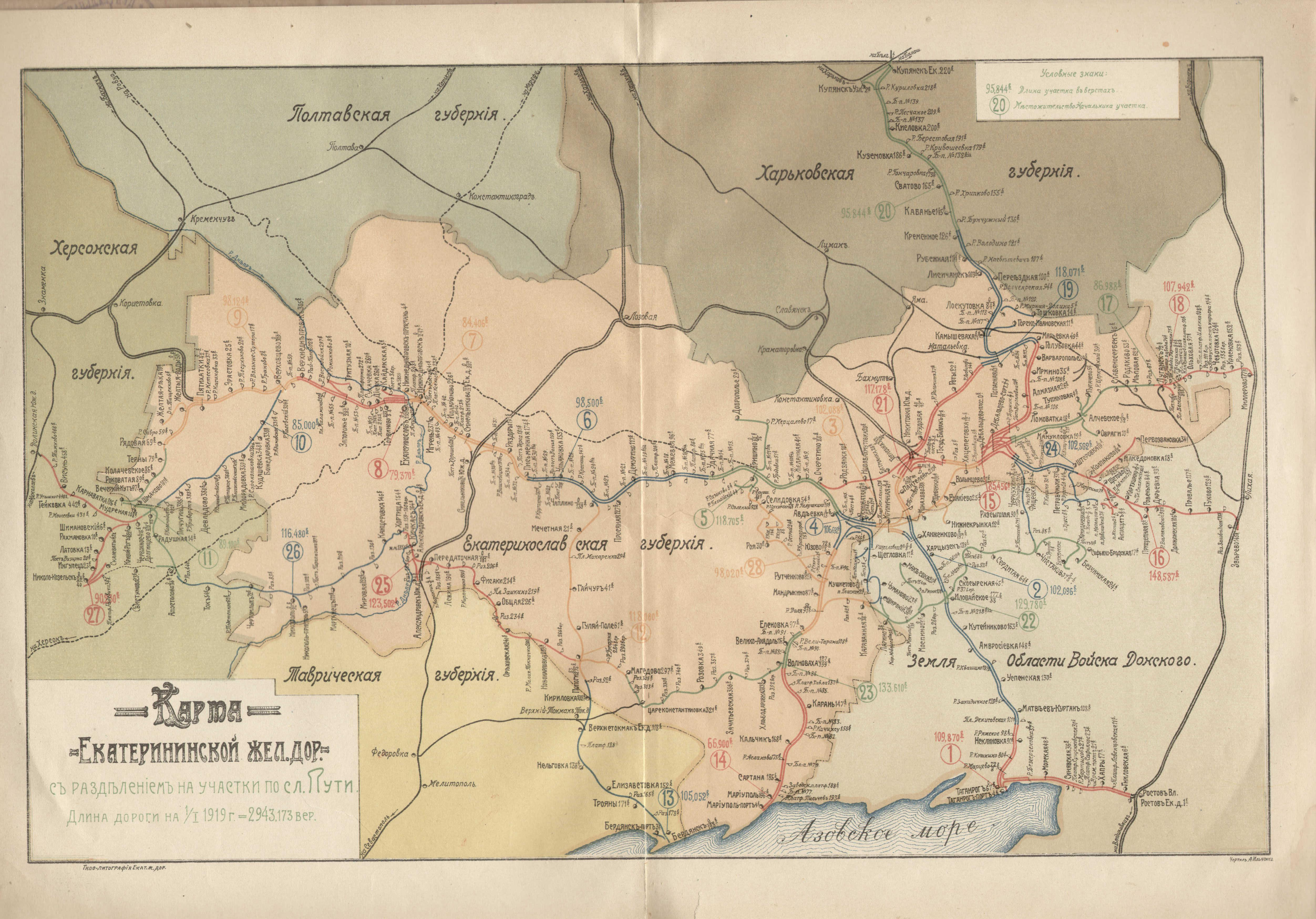 Ekaterinoslav Railway, map of 1919y.